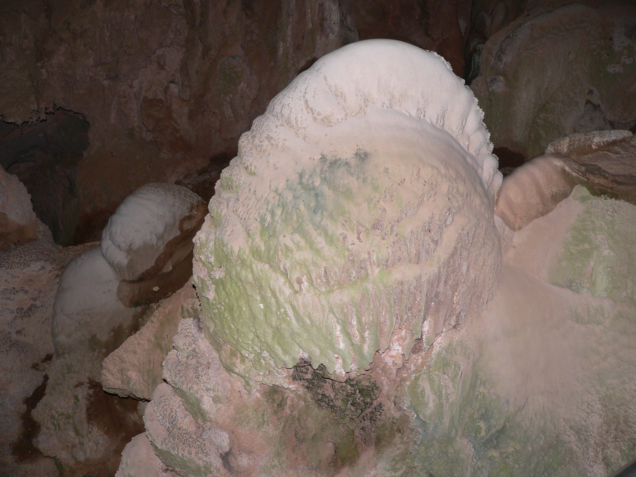 'Crayback' stromatolite - Nettle Cave, Jenolan Caves, NSW, Australia. Size is about 1m high and wide.